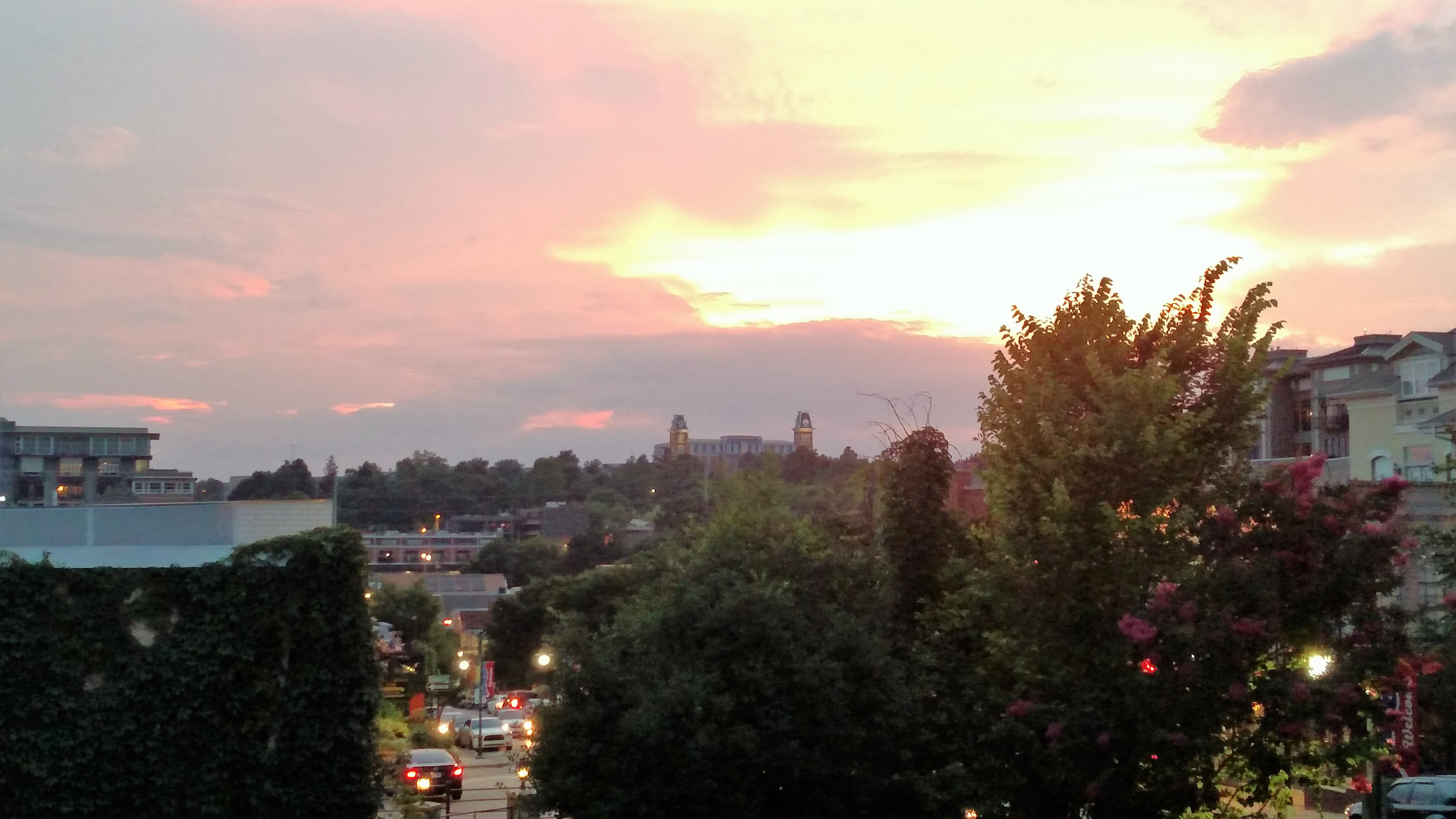 Sunset in Fayetteville, looking west toward the University of Arkansas campus from the Dickson Street Inn